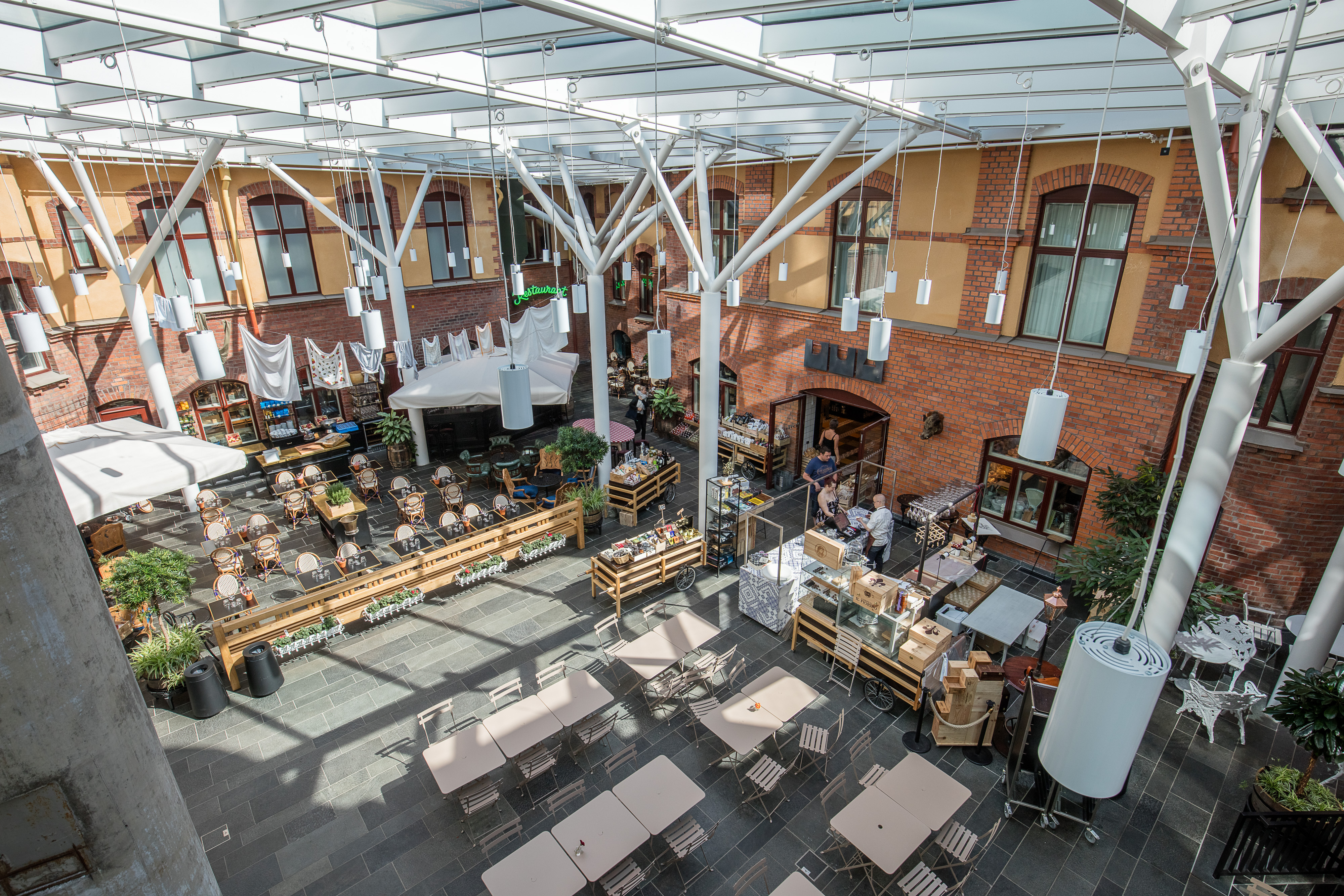 The "square" between Väven and Stora hotellet hosts the restaurant Gotthards, delicacy store DUÅ and kulturkafeet, but also serves as passage to the city library inside Väven and the U&Me hotel.